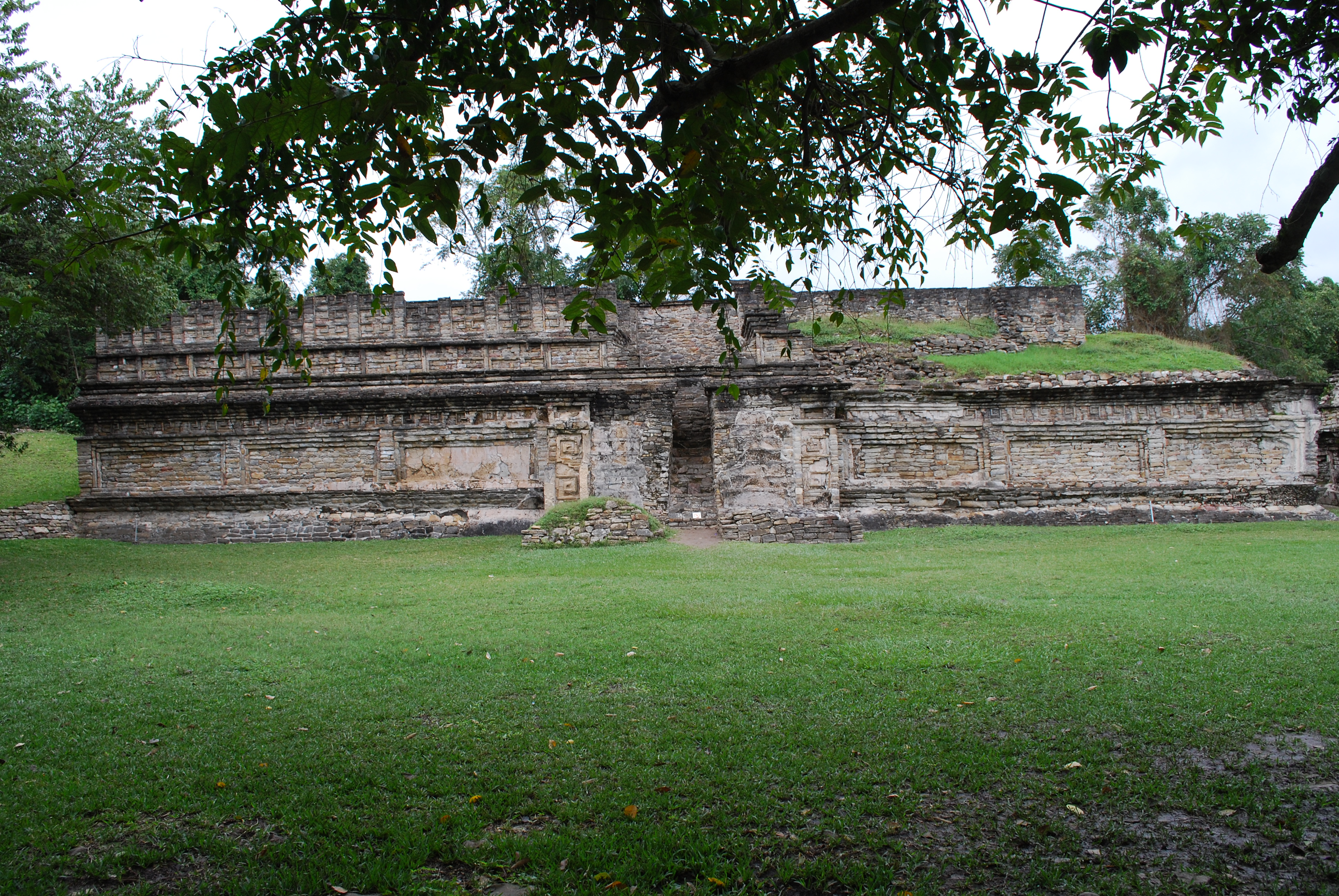 Building A in the Tajin Chico section of Tajin, Veracruz, Mexico